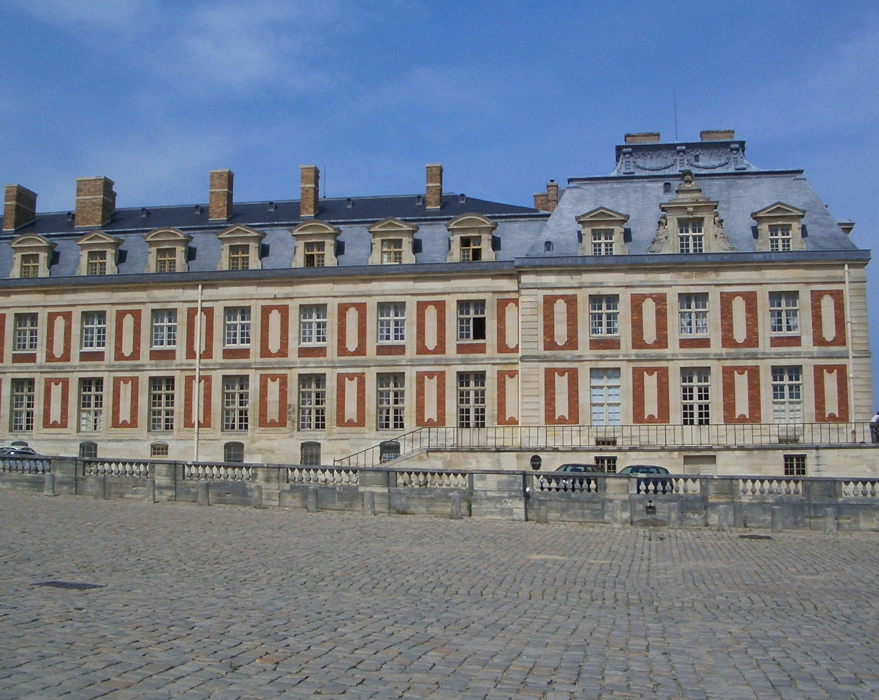 Entrance court to the Versailles castle, last floor: Mansardes (named after the architect Mansard)